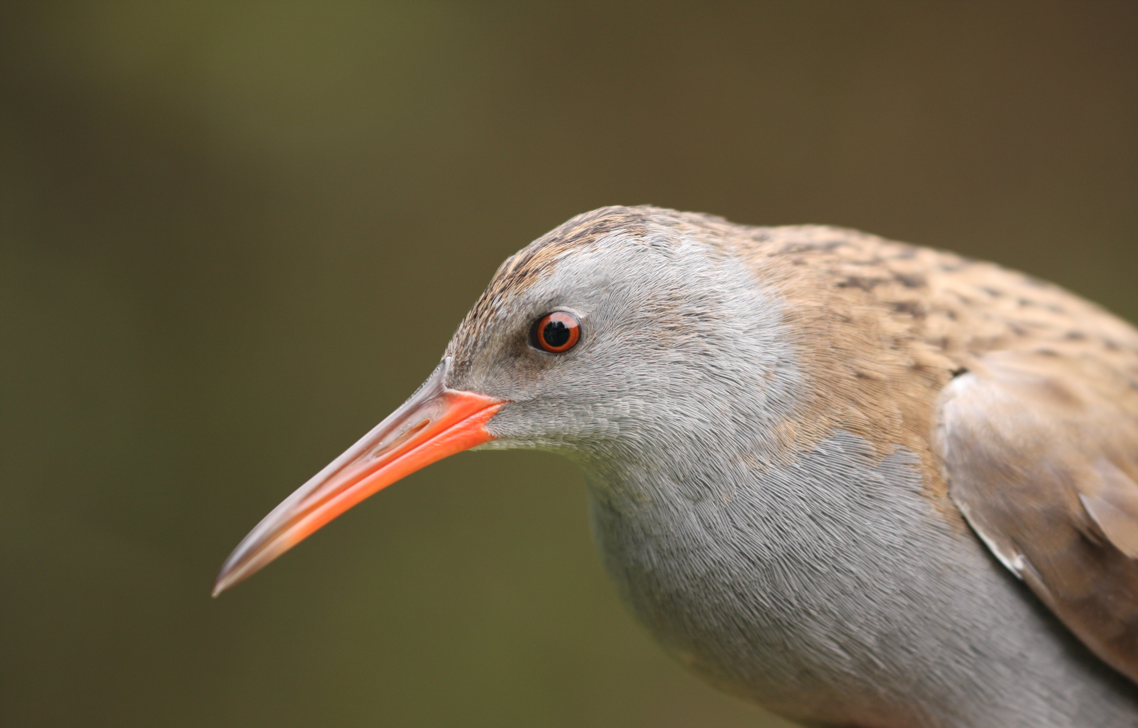 Portrait of an European Water Rail, taken from hand during bird ringing near Vrhnika, Slovenia